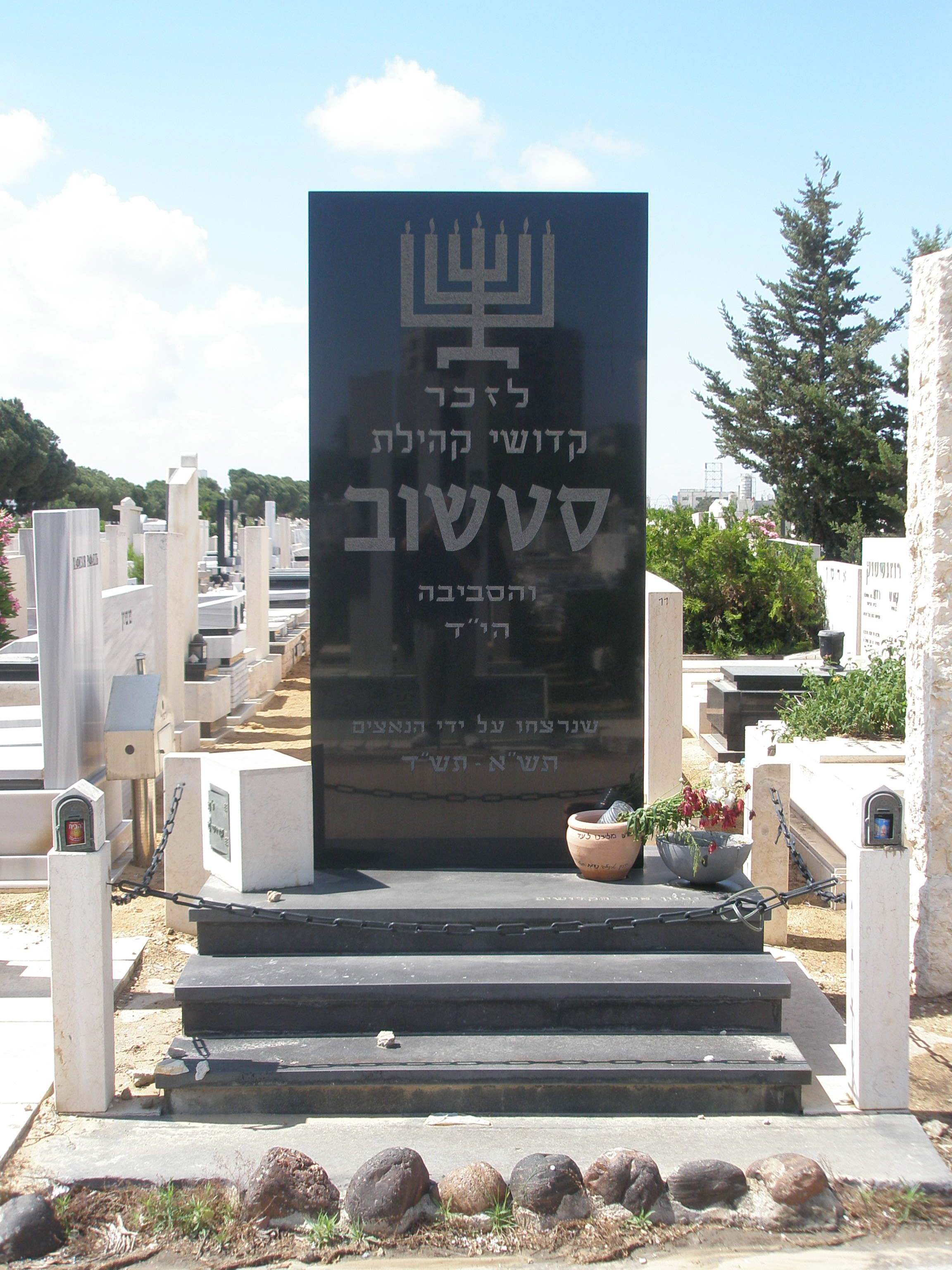 Staszów memorial at Holon Cemetery